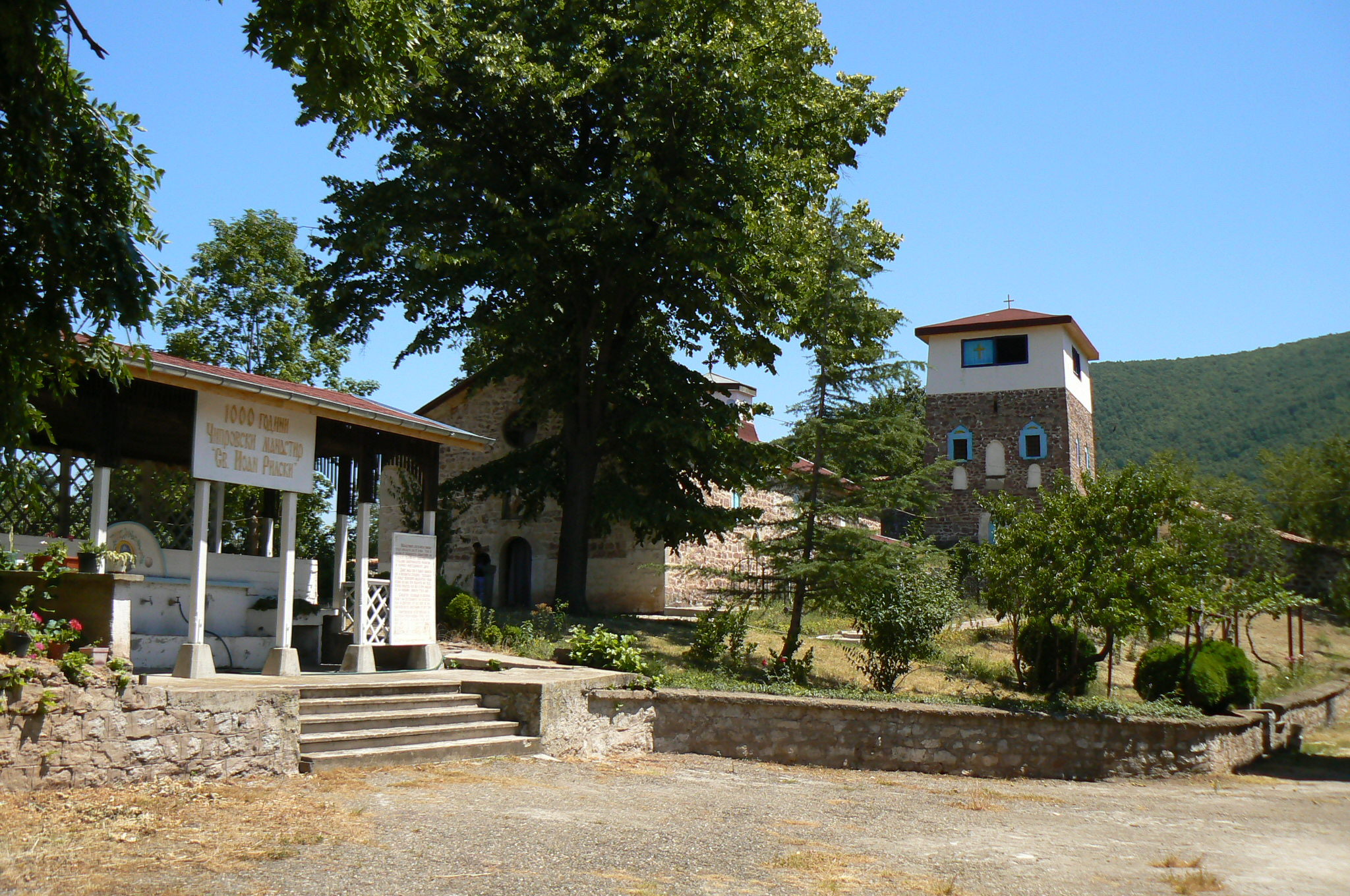 The yard of Chiprovski monastery, Bulgaria - the water tap, church and ossuary